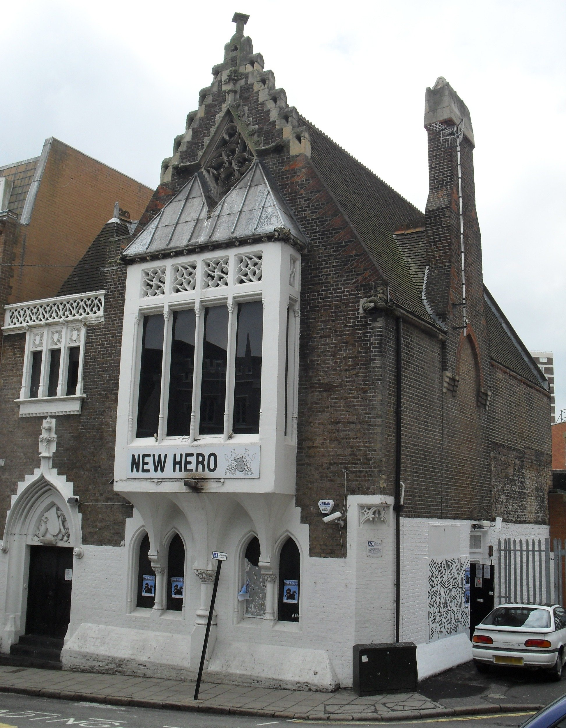 New Hero club, 11 Dyke Road, Brighton, City of Brighton and Hove, England. Now a nightclub, but built as the Swan Downer School by George Somers Clarke senior in 1867. The style is a "freely inventive" French/Flemish Gothic.Listed at Grade II by English Heritage (IoE Code 480612)